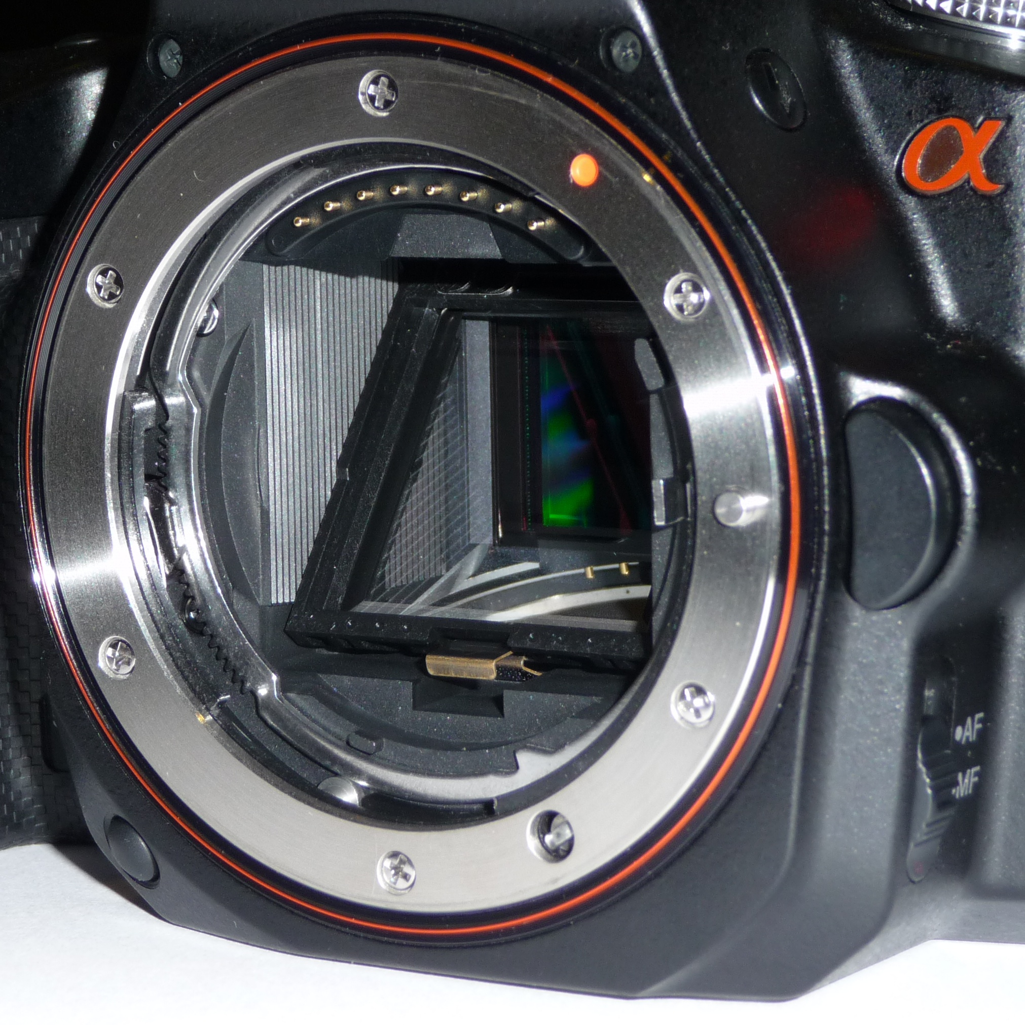 A camera showing the Sony Alpha mount with eight contacts and screw drive focus. The camera is a Sony A33 with translucent mirror.